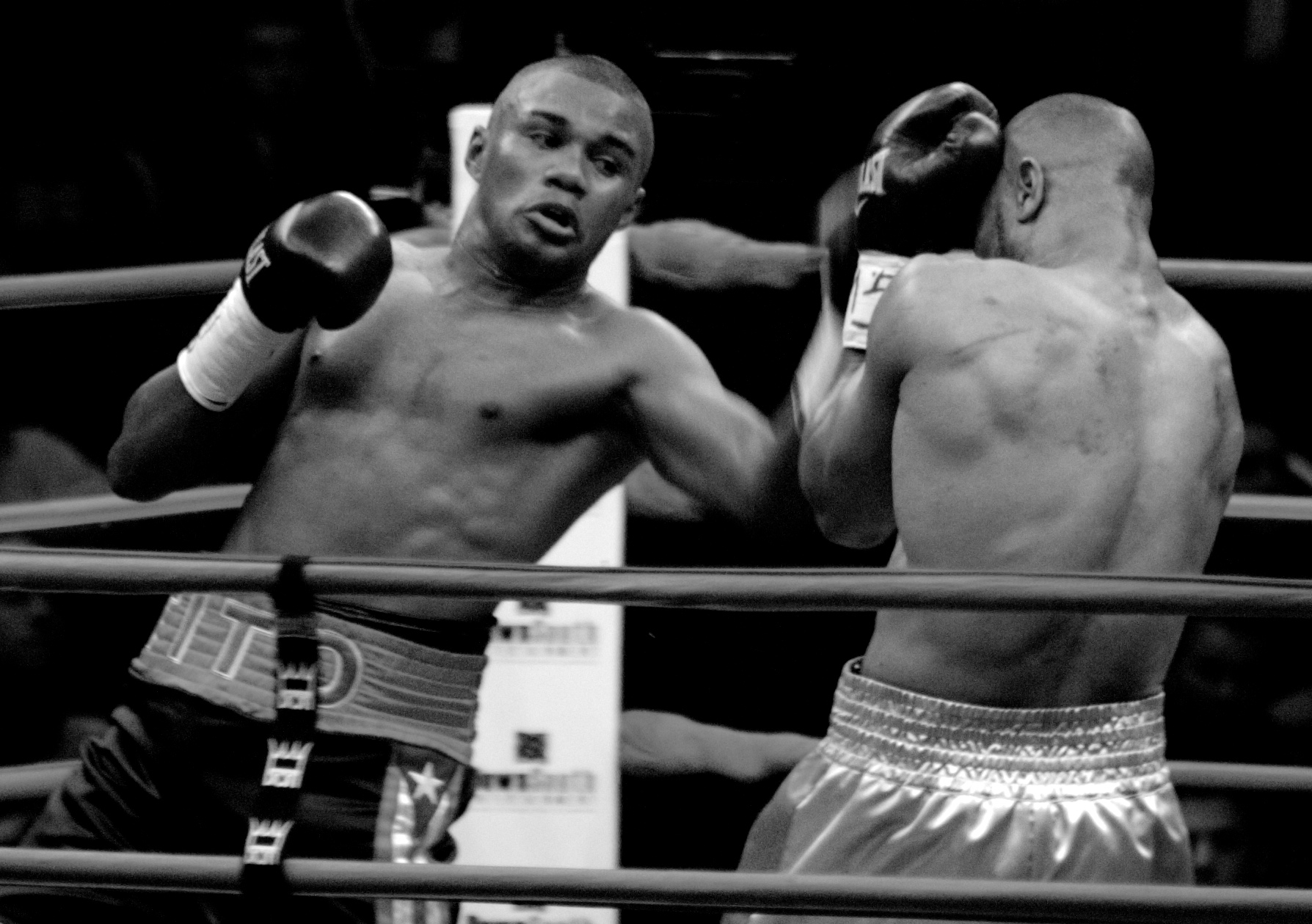 Felix Trinidad vs. Roy Jones. Jr at the Madison Square Garden (New York)